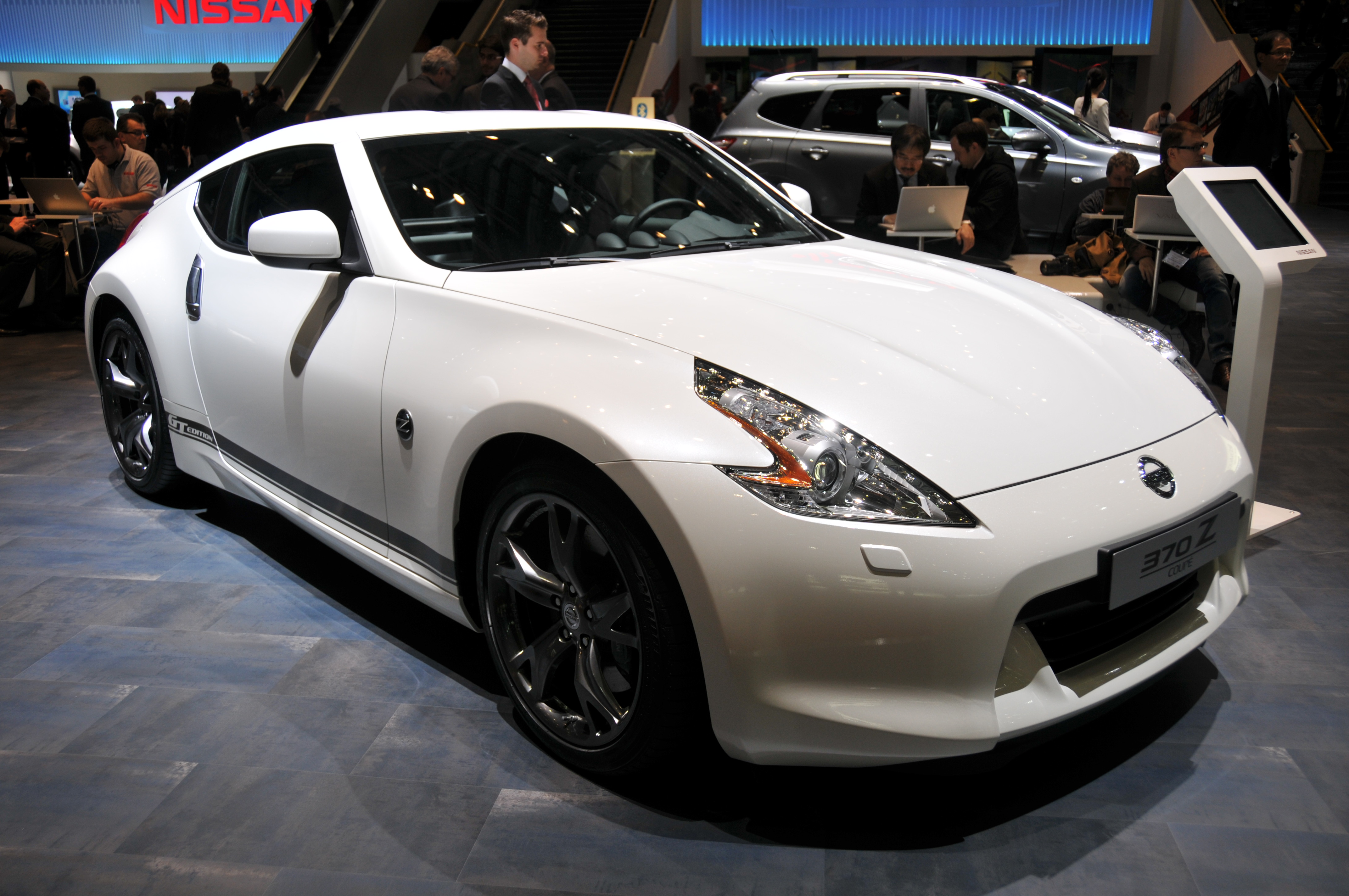 Nissan 370Z at the 2011 Geneva Motor Show. More pictures and info